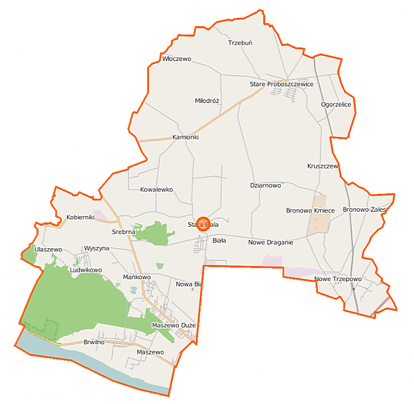 Map of Gmina Stara Biała, Poland This map of Stara Biała (gmina) was created from OpenStreetMap project data, collected by the community. This map may be incomplete, and may contain errors. Don't rely solely on it for navigation. Border coordinates52.686319.5378←↕→19.766452.5504